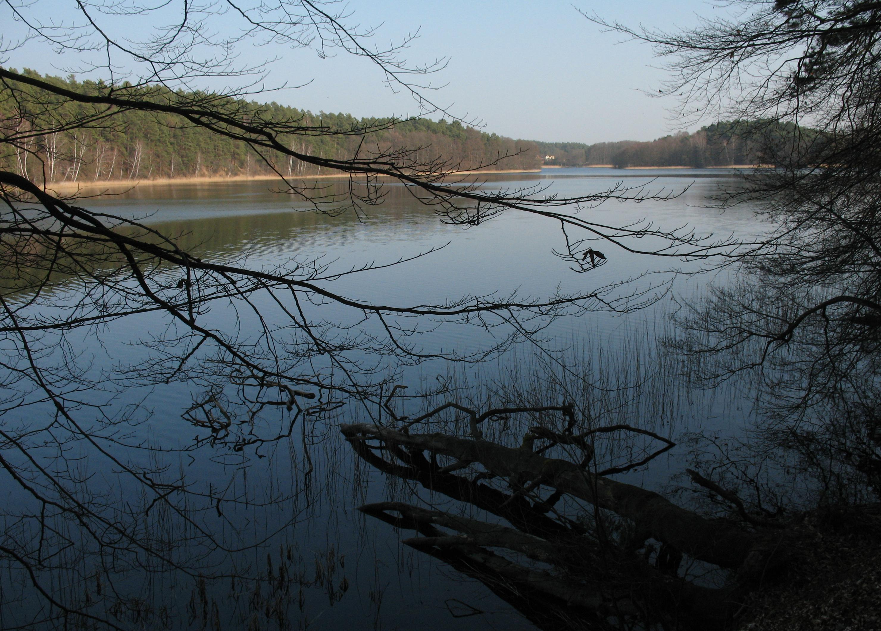 Lake Roofen in Stechlin-Menz in Brandenburg, Germany